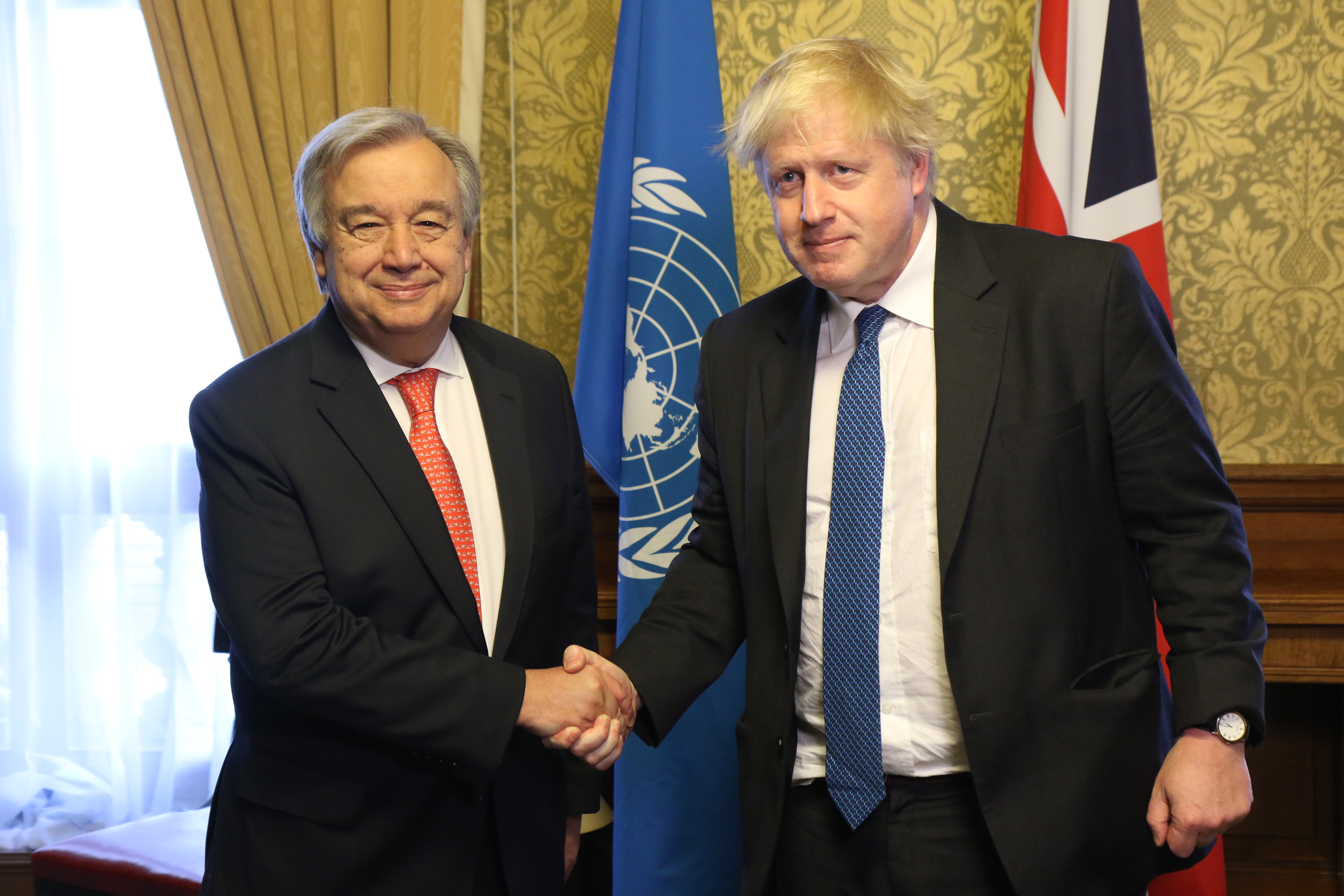 Foreign Secretary Boris Johnson meeting United Nations Secretary-General António Guterres in London, 2 May 2018.